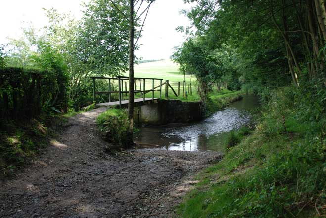 De Gulp in Beutenaken, Limburg, Nederland, The Netherlands